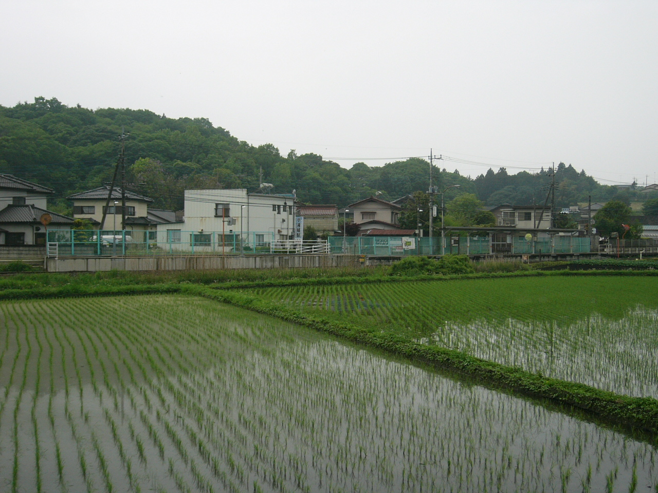 Konoyama Station on JR Karasuyama Line. (192-4,Konoyama,Nasukarasuyama-shi,Tochigi-ken,JAPAN)